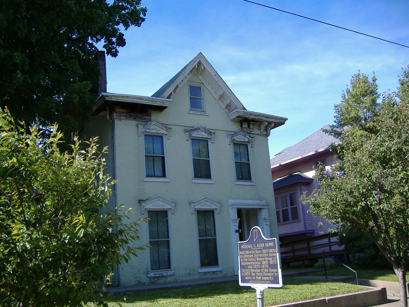 The home of Michael C. Kerr, in the Mansion Row Historic District in New Albany, Indiana